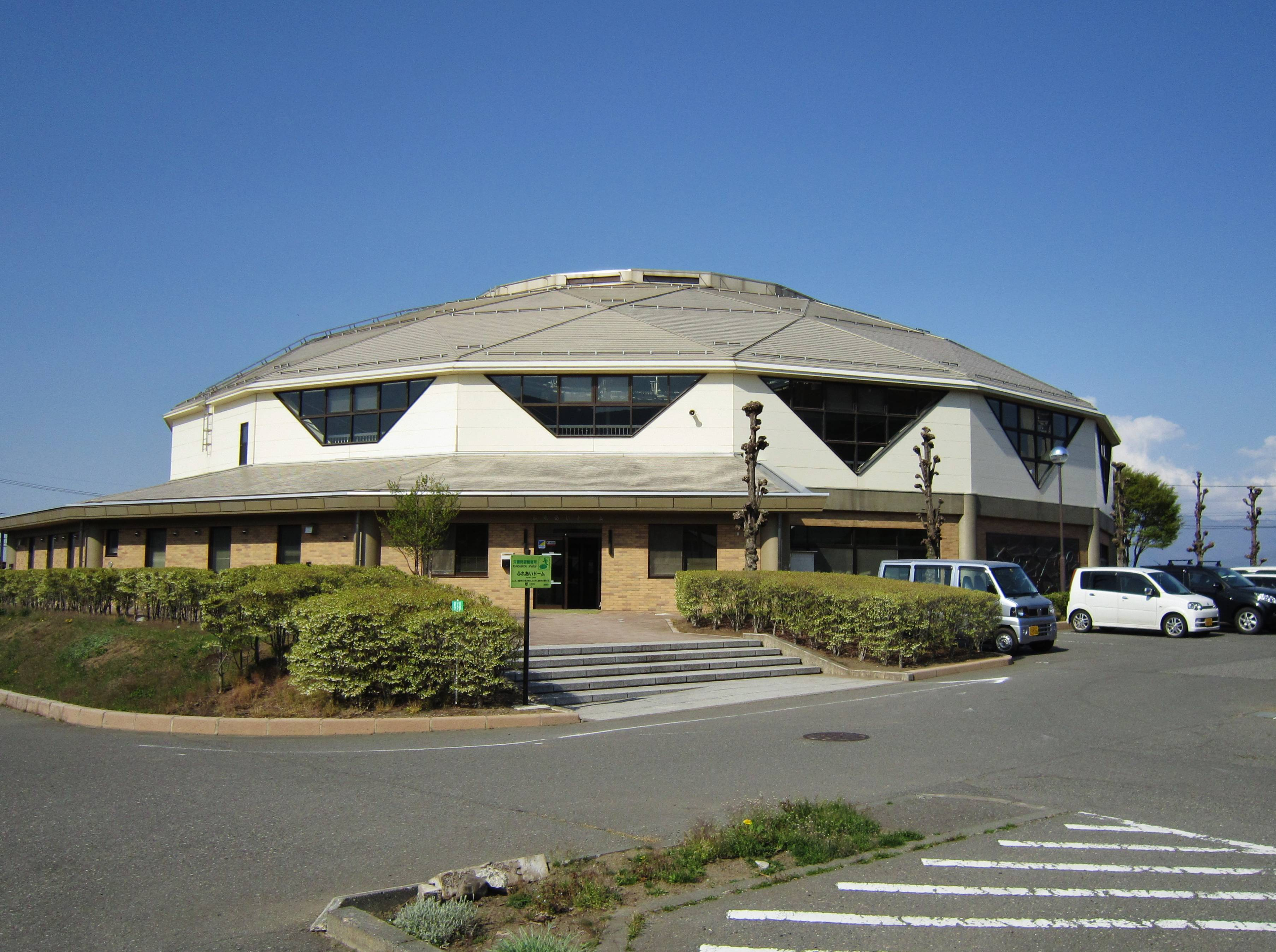 Yamagata village Fureai Dome.